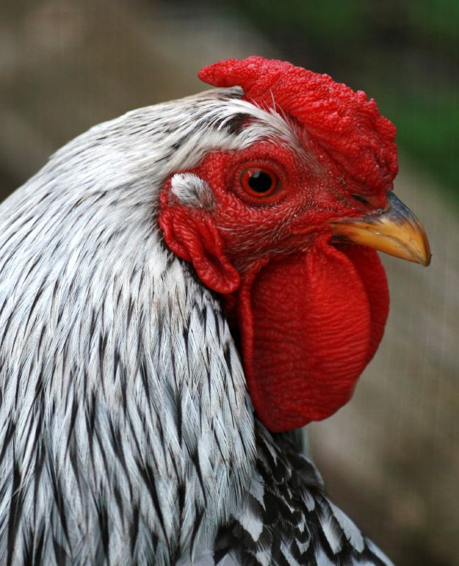 Head shot of a rooster (breed unknown)